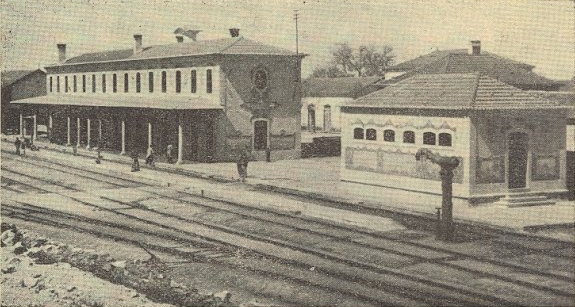 Vilar Formoso Train Station, in the Beira Alta Railway, in Portugal. This photograph was published on the Gazeta dos Caminhos de Ferro magazine No. 1325, of 16th April 1944, and scanned by the Hemeroteca Municipal de Lisboa.